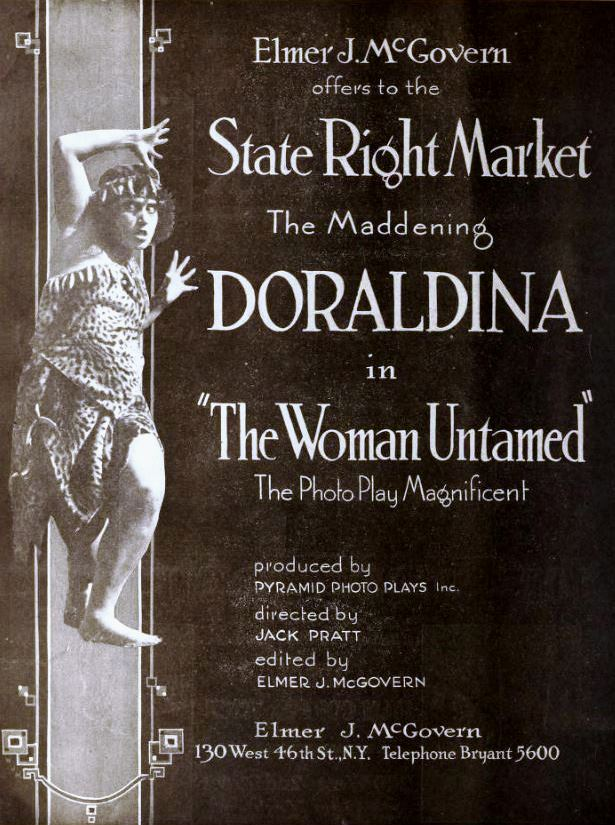 Advertisement for the American drama film The Woman Untamed (1920) with Doraldina, on page 18 of the August 7, 1920 Exhibitors Herald.